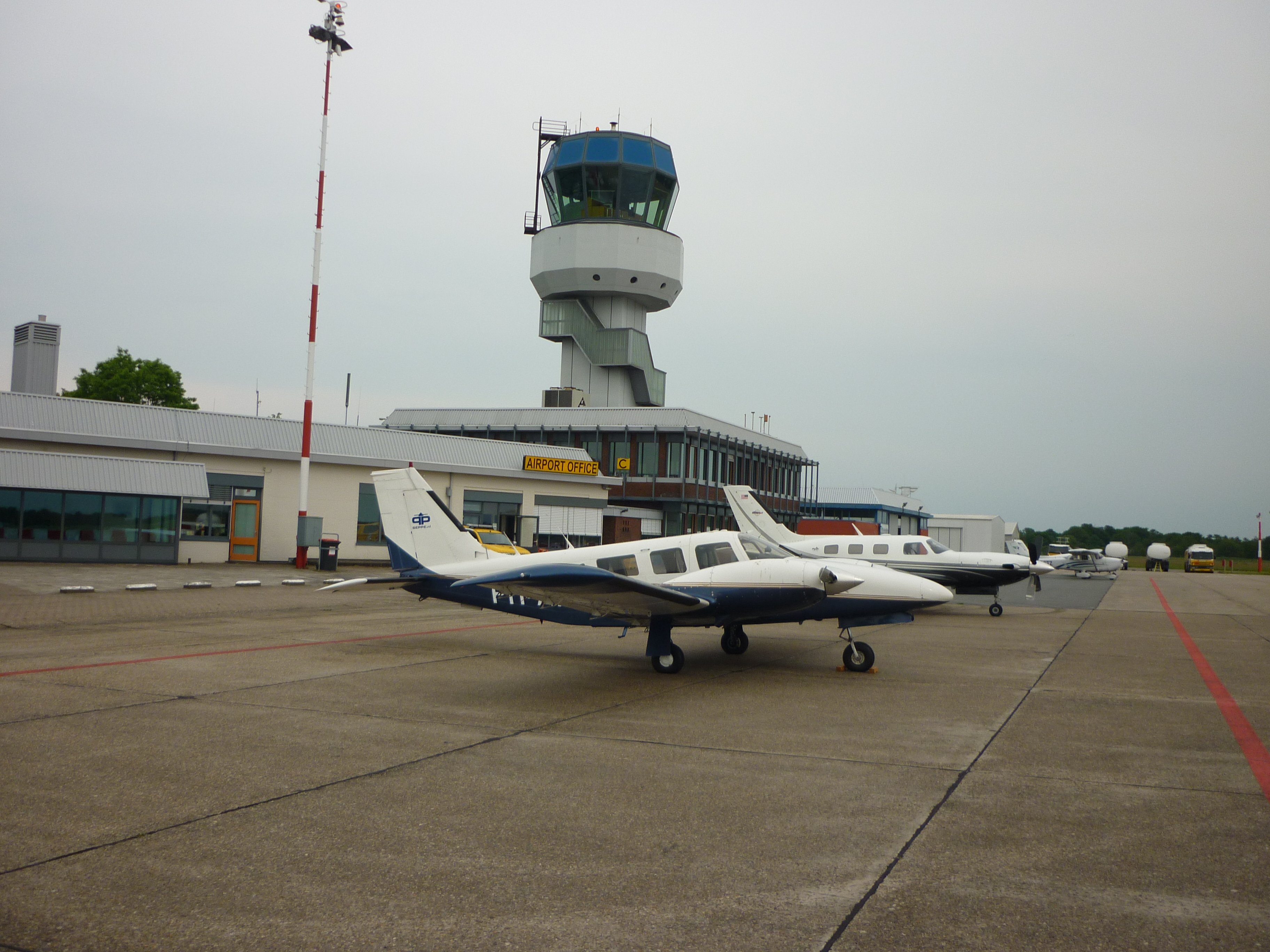 Groningen Airport Eelde